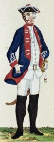 Illustration of a private from Infantry Regiment Number 9 in 1759 taken from the Accurate Vorstellung der sämtlich Koeniglichen Preusischen Armee Worinnen zur eigentlichen Kenntniss der Uniform von jedem Regiment ein Officier und Gemeiner in Völliger Montirung und ganzer Statur nach dem Leben abgebildet sind. Nebst beigefügter Nachricht 1.) von der Stiftung. 2.) Denen Chefs. 3.) der Staerke und 4.) der in Friedenszeiten habenden Guarnisons jedes Regiments. Hrsg. u. gezeichnet I.C. v. S.(chmalen), Nürnberg 1759.